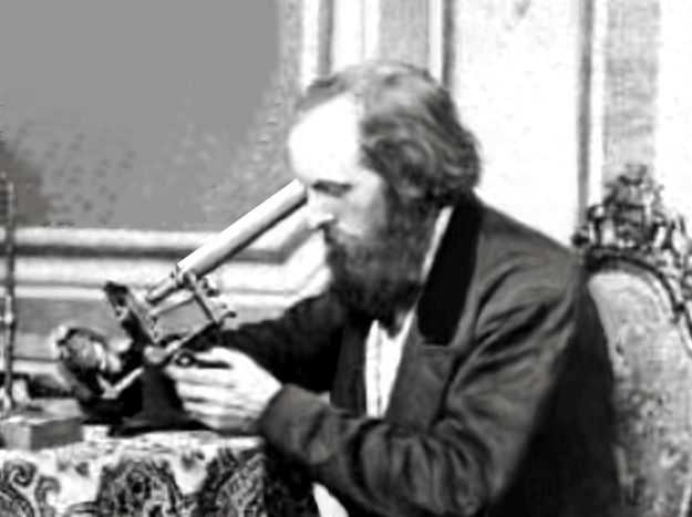 George Stacy, cropped, albumen silver stereoview, self portrait